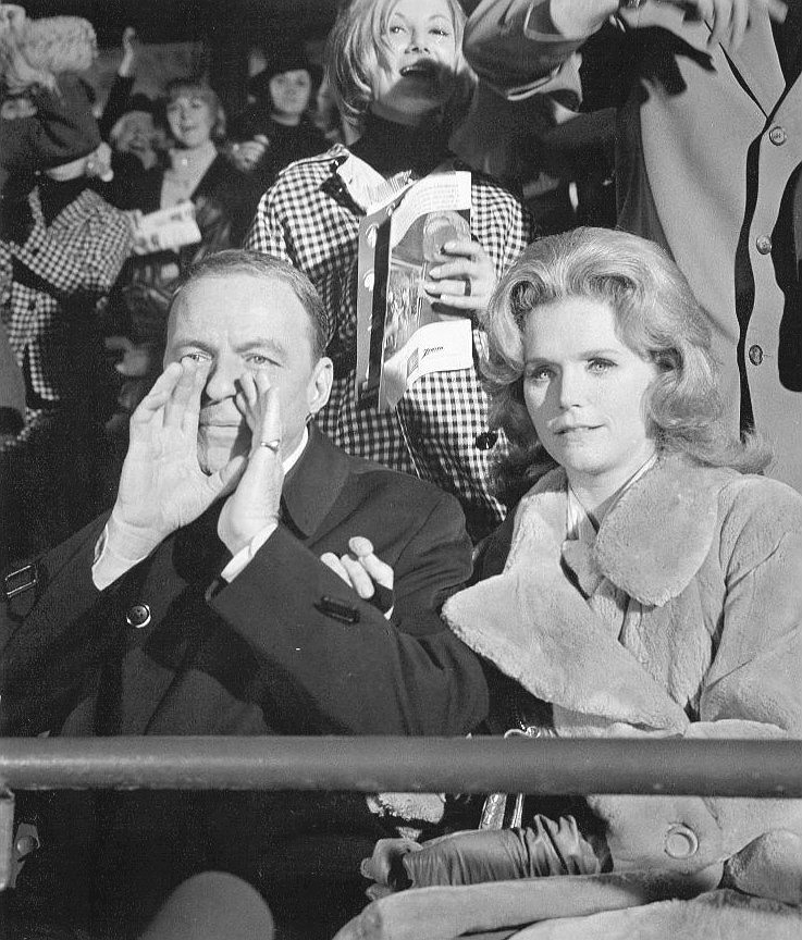 Photo of Frank Sinatra and Lee Remick from the film ‘’The Detective’’.